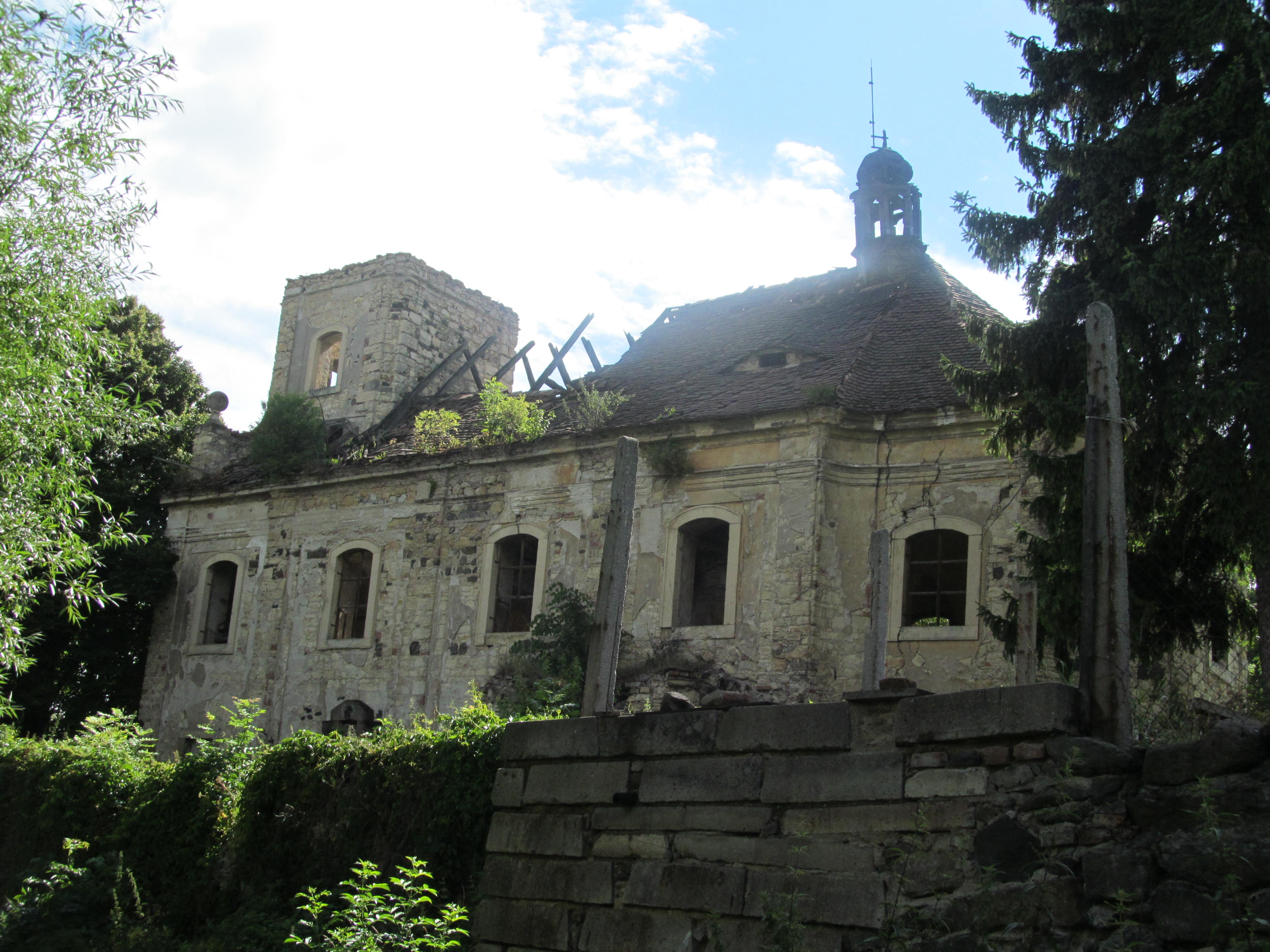 Church of Saint Bernard of Clairvaux in Řisuty